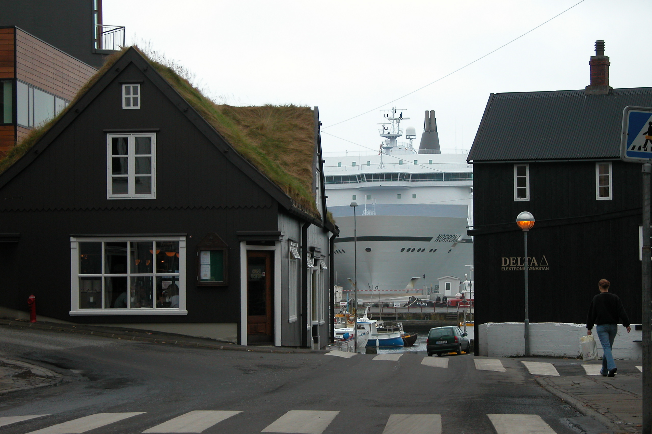 The ferry Norröna in Tórshavn IMO Number: 9227390 MMSI Number: 231200000 Callsign: OZ2040 Length: 166 m Beam: 34 m